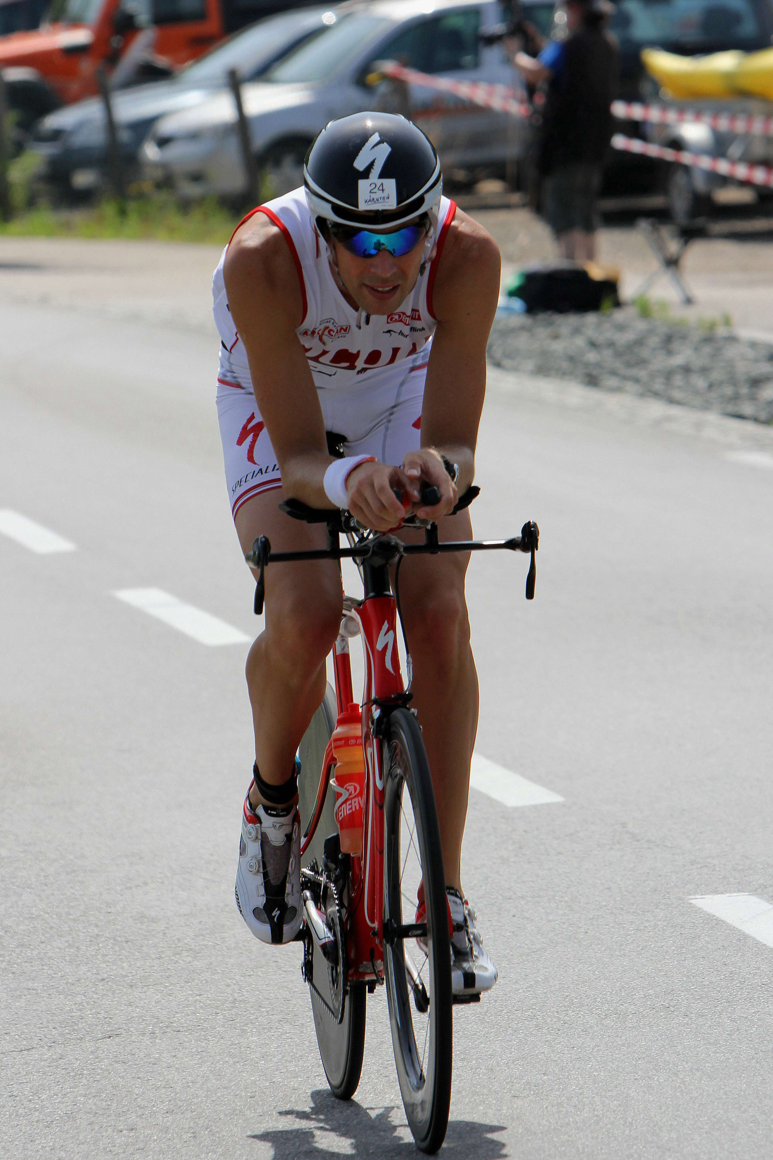 Markus Ressler at Ironman Austria 2012